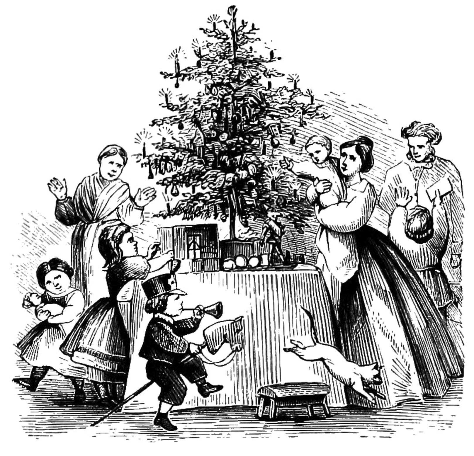 A family gathered around a Christmas tree, from a type specimen book published in 1867